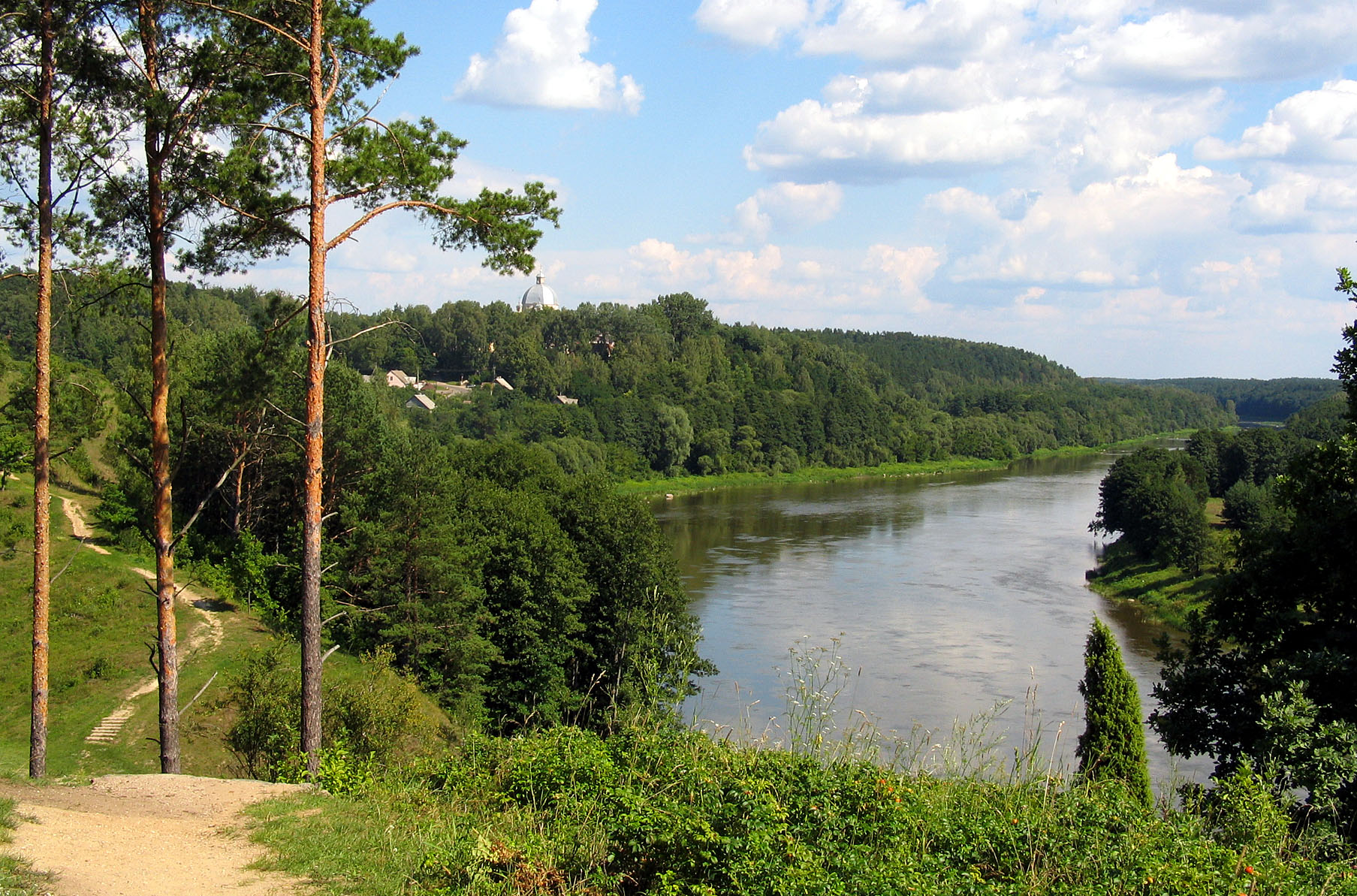 River Neman nearby Druskininkai, Lithuania